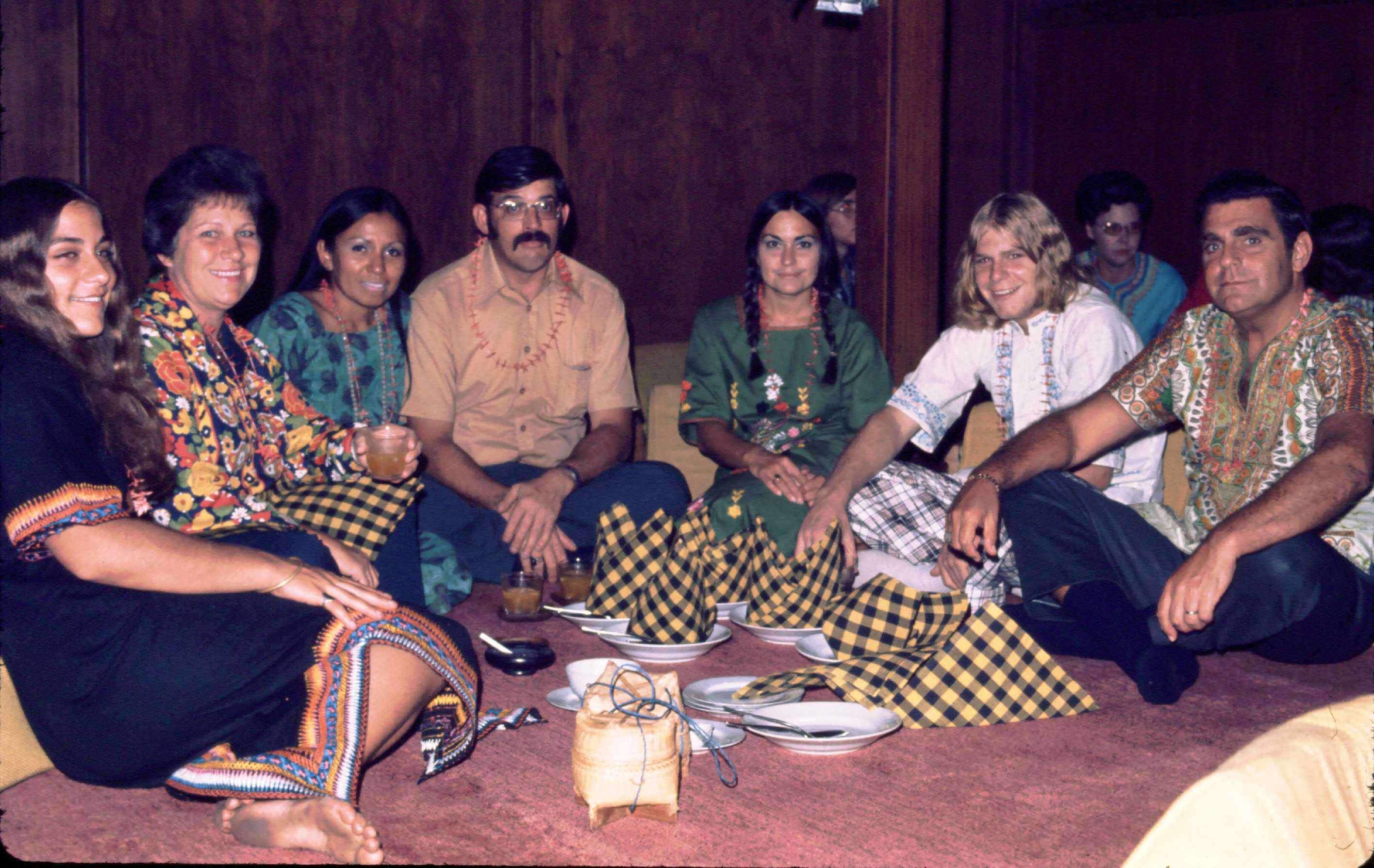 Hippies sitting around smoking cannabis in Chiang Mai, Thailand, November 1973. These are US tourists on extended vacation. Thomas R. Martin, USN seated.